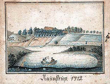 Ravnstrup in Næstved Municipality, Denmark